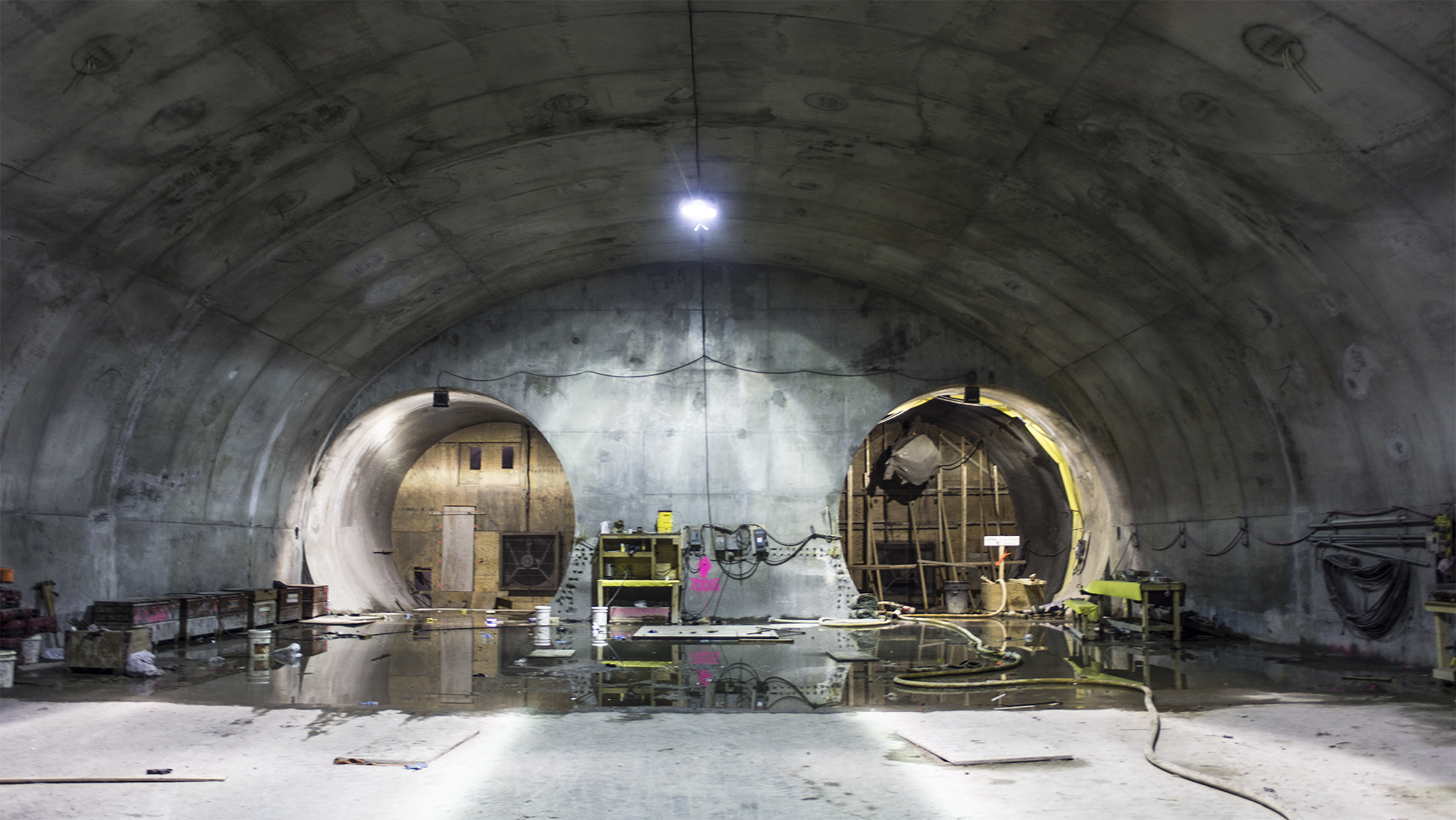 Work continues to progress on the cavern that will house the Second Avenue Subway's 72nd Street Station. Photo: MTA Capital Construction / Rehema Trimiew.